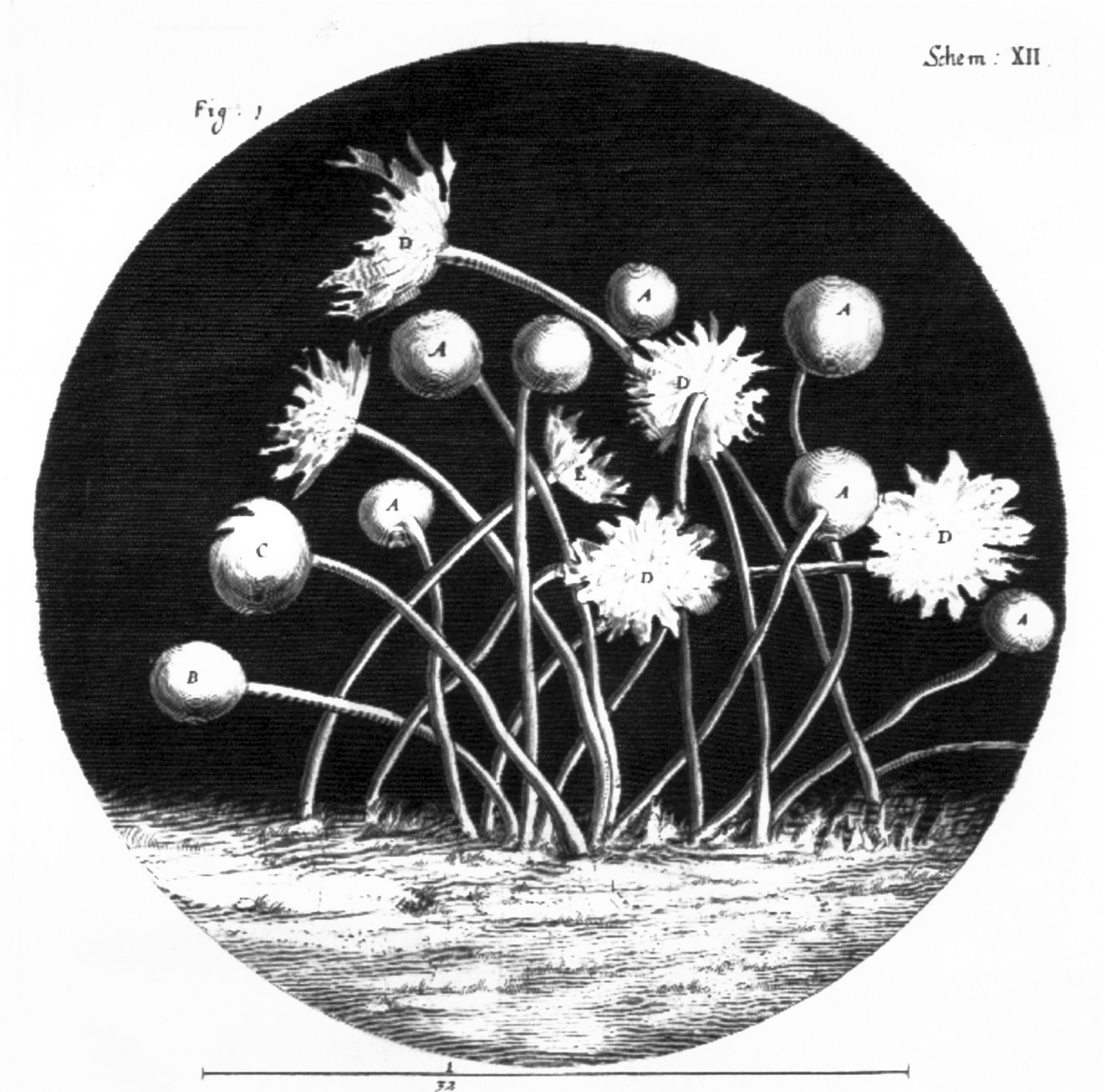 Mucor on schematic XII in Robert Hookes Micrographia